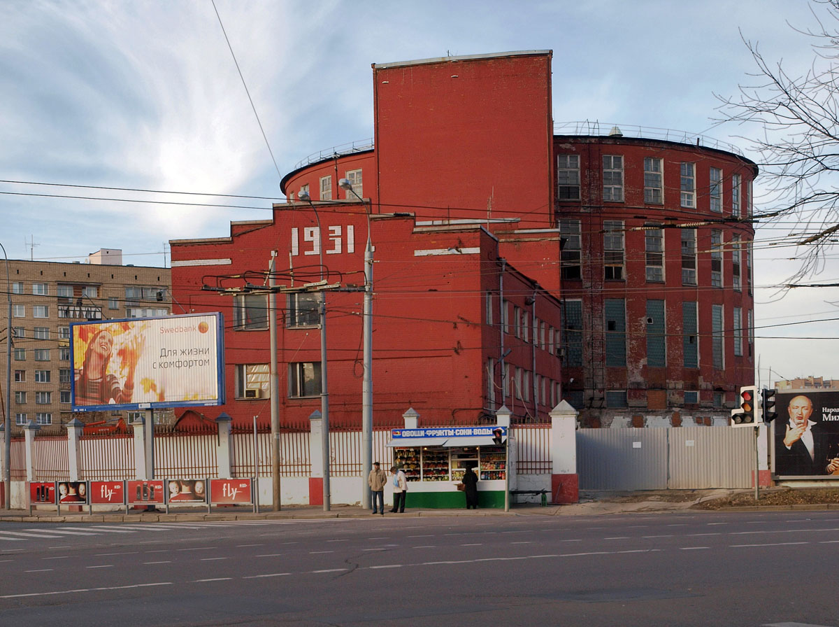 An industrial bakery in Moscow (corner of Presnensky Val / Khodynskaya Street)